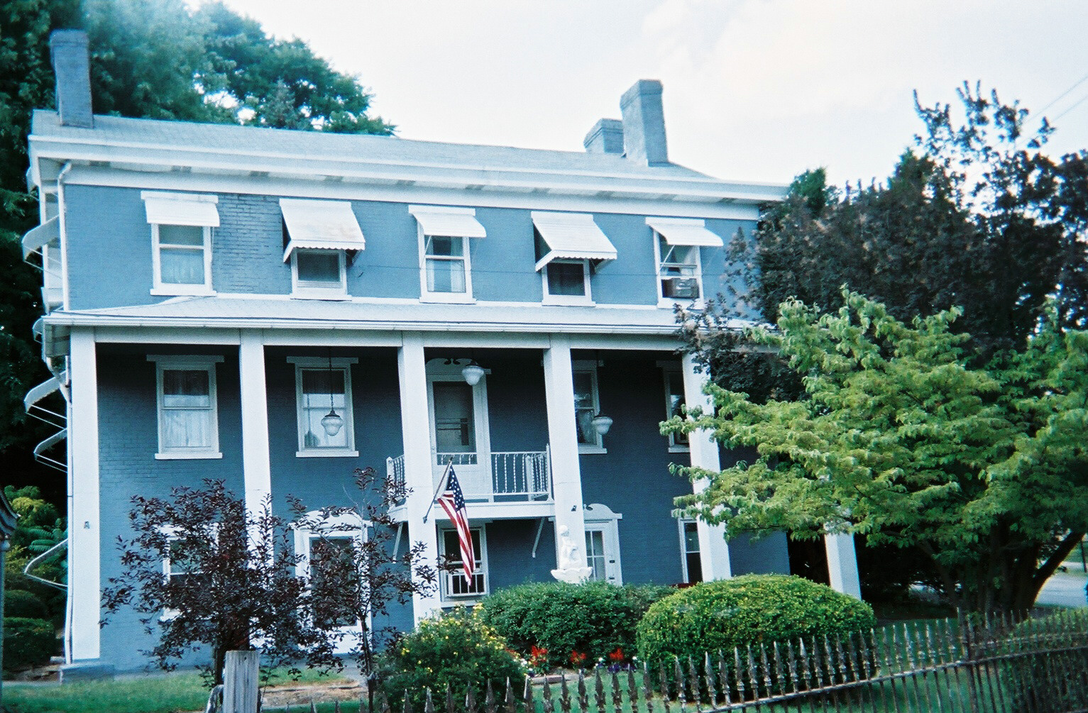 Jacob Loucks House (1853) at 115 Walnut Avenue, Scottdale, Pennsylvania (oldest building within the boundaries of the Borough of Scottdale)